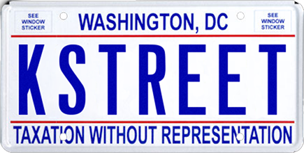 2003 Washington DC KSTREET Vanity License Plate